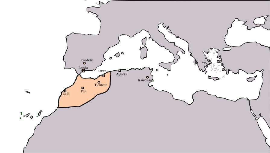 Locator map of the lands ruled by the Ifrenid dynasty (Partially based on the book of Ibn Khaldun:The history of the Berbers)